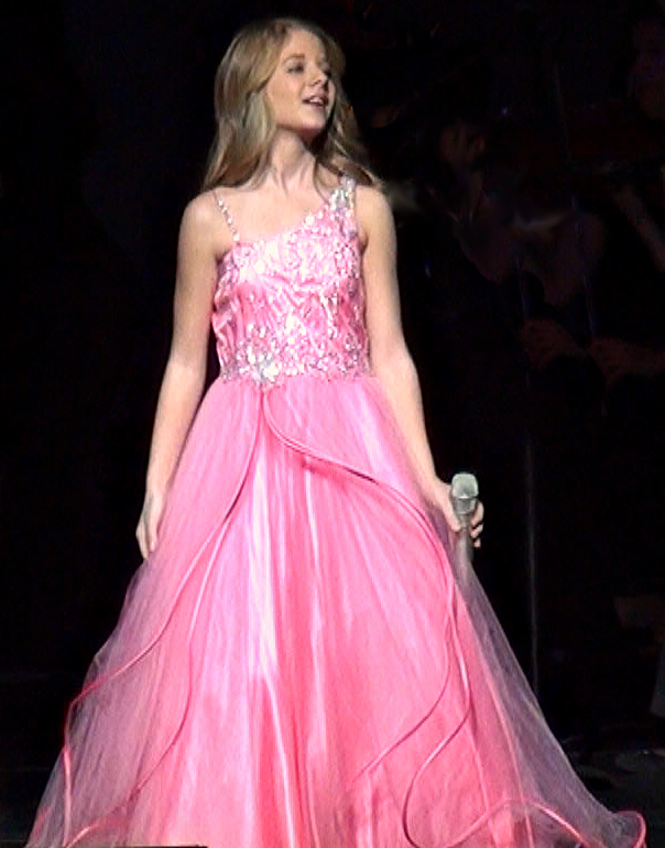 Jackie Evancho, in concert at the Verizon Theatre at Grand Prairie, Grand Prairie, Texas.